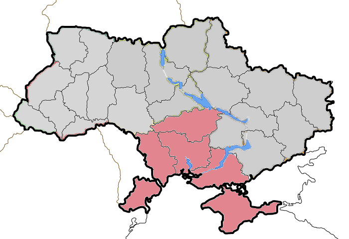 Map of roman-catholic dioceses in Ukraine - Odessa-Simferopol diocese